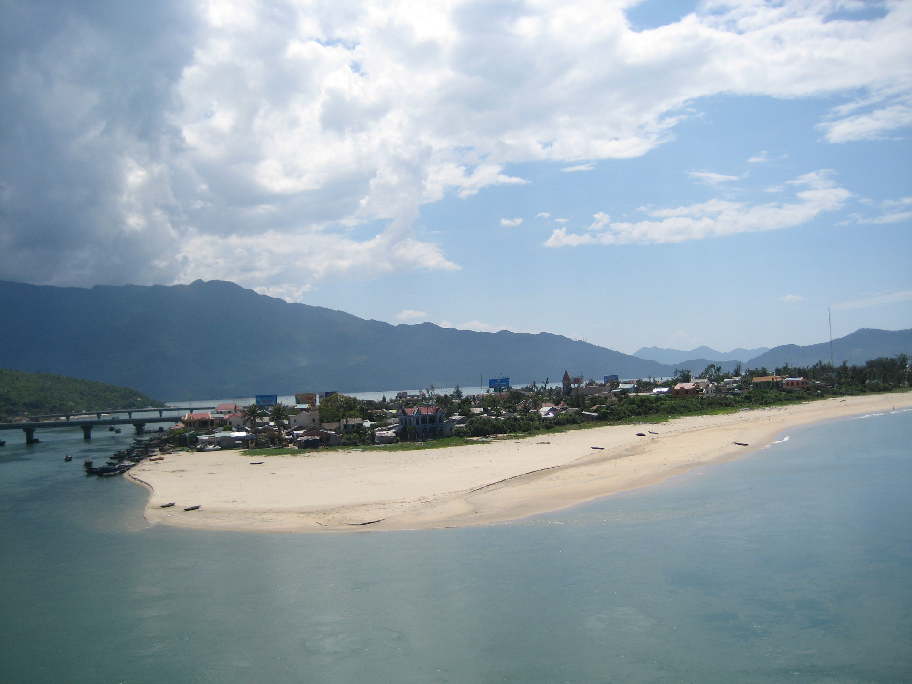 Lang Co in Thua Thien Hue, Vietnam